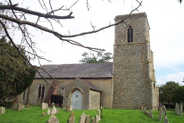 Church of All Saints in Hacheston, Suffolk, England. A Grade I listed medieval church.